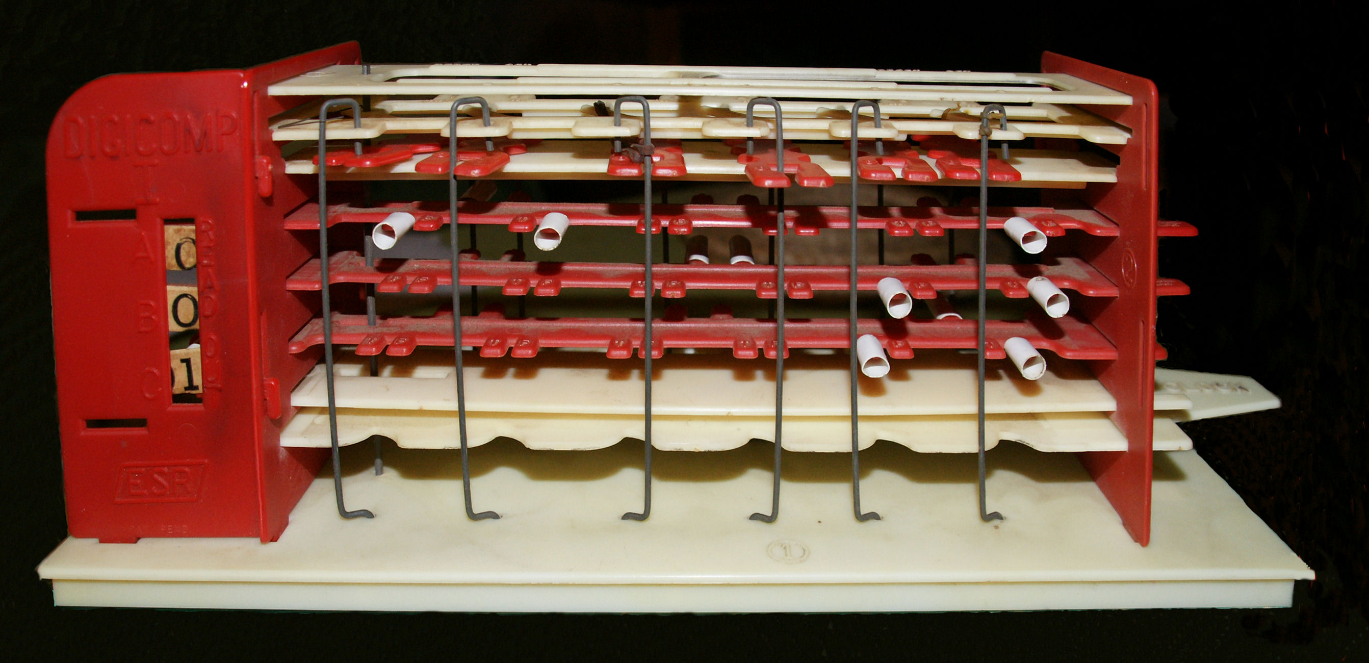 A rather battered example of the original Digicomp I